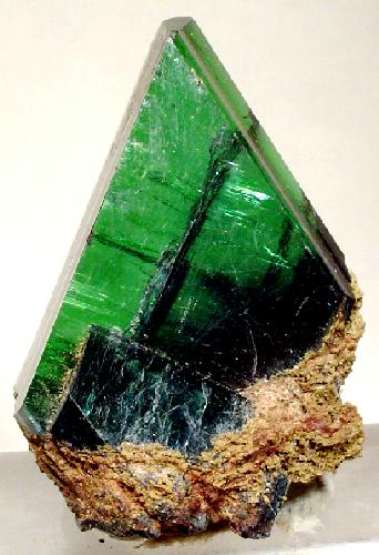 Vivianite Locality: Canutillos Mine, Machacamarca District (Colavi District), Cornelio Saavedra Province, Potosí Department, Bolivia (Locality at ) A SUPERB, VERY GEMMY and pristine, thick, emerald-green viviianite arrowhead crystal perched on a bit of matrix from the recent finds in Bolivia. 2.8 x 2.0 x 1.4 cm